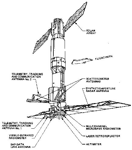 Orginal caption released with the picture: Spacecraft configuration